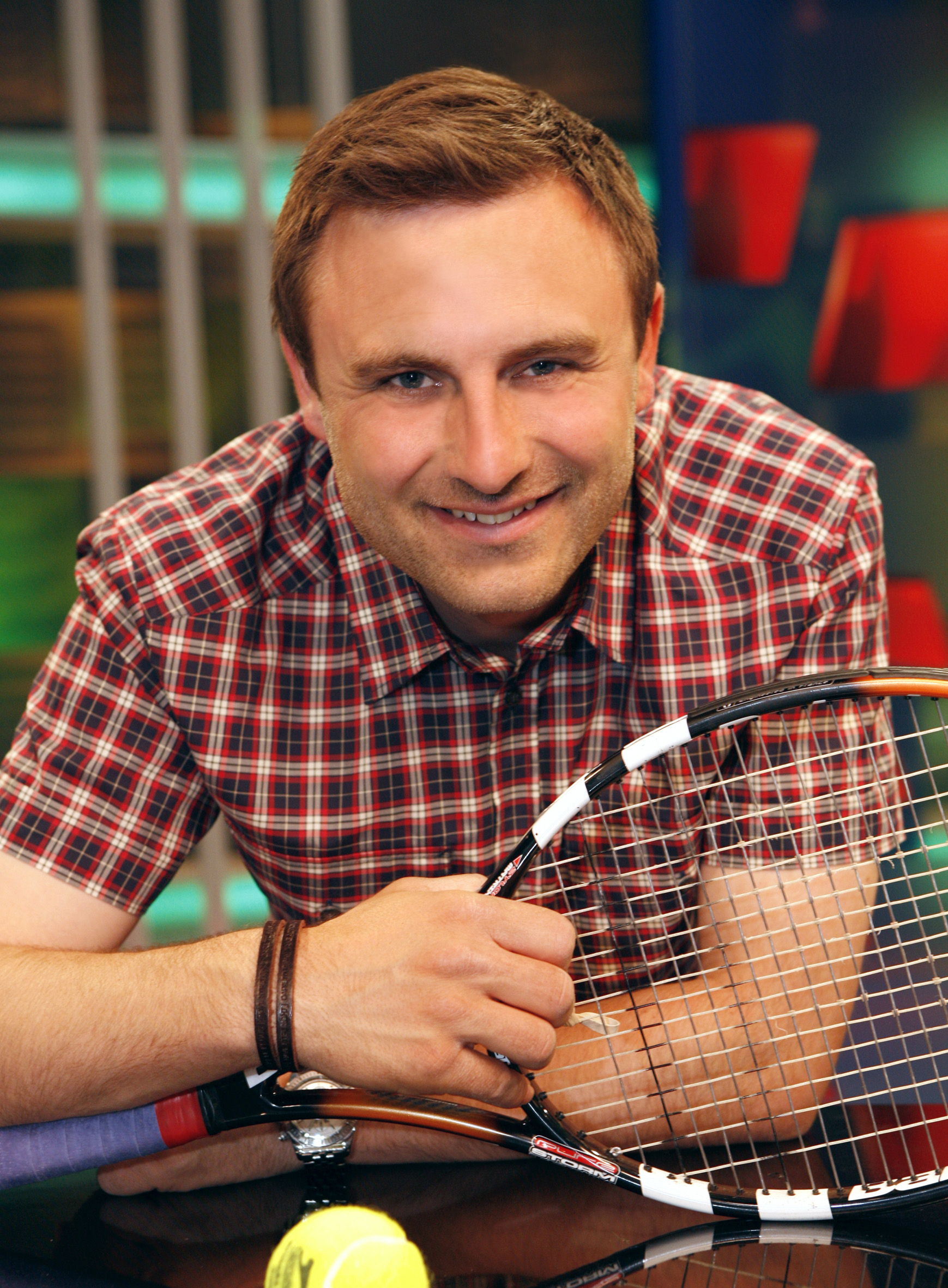 Anders Sigdal